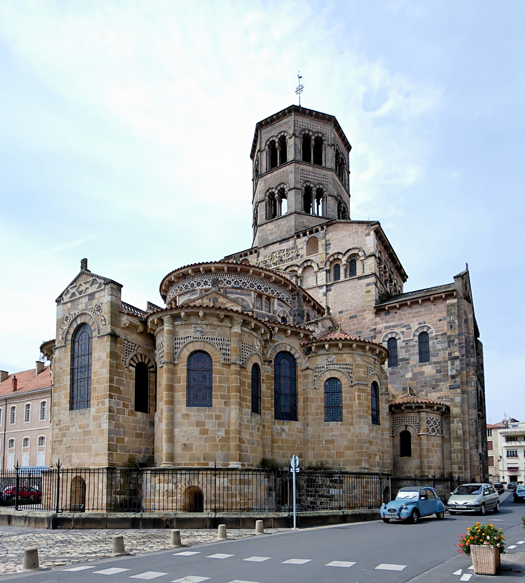 Exterior view of the church Saint-Austremonius of Issoire (12th century), Auvergne, France.